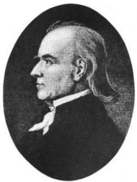 Portrait of American General William Lenoir (1751–1839).